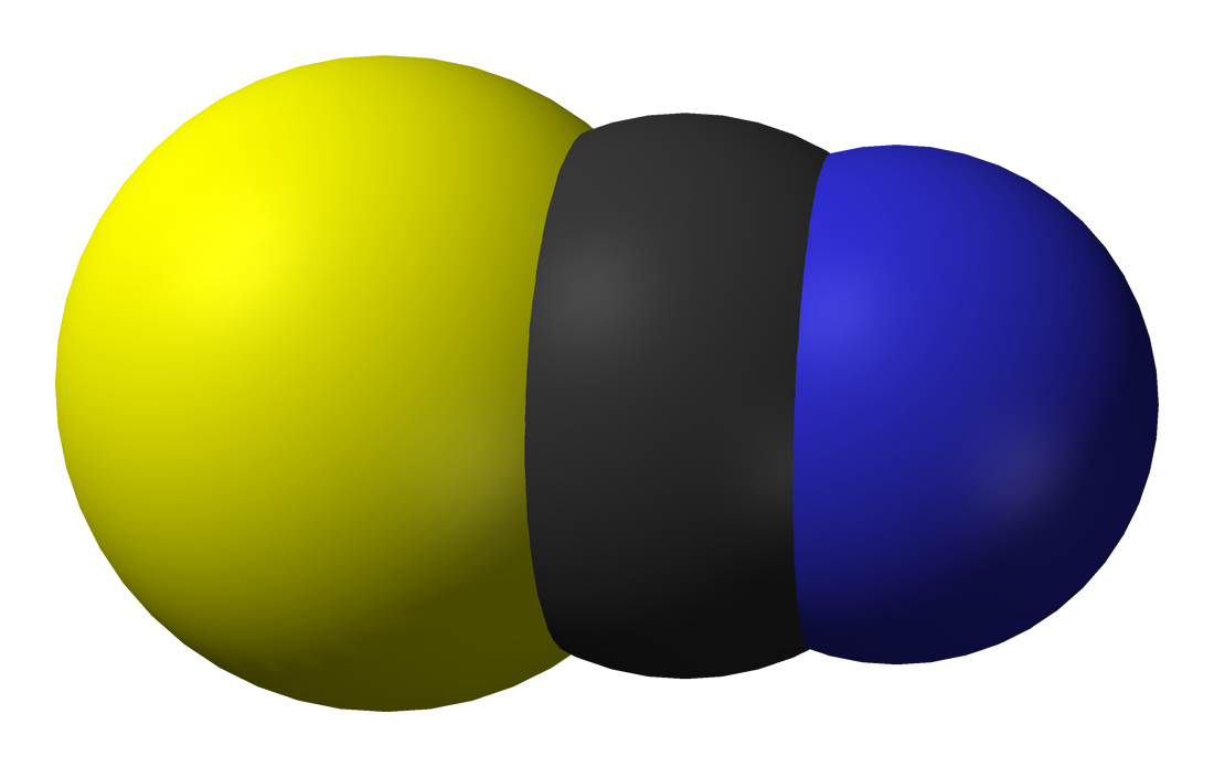 Space-filling model of the thiocyanate ion, [SCN]−. Structure calculated using HF/6-31G* in Spartan '04 Student Edition. Image generated in Accelrys DS Visualizer.